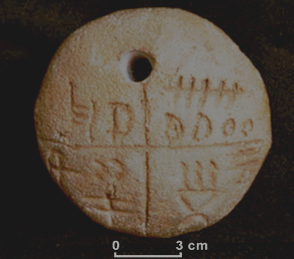 Neolithic tablet amulet (on dark baground), part of the Tărtăria tablets set, dated to 5500-5300 BC and associated with the Turdaş-Vinča culture. The Vinča symbols on it predate the proto-Sumerian pictographic script. Discovered in 1961 at Tărtăria, Alba County, Romania by the archaeologist Nicolae Vlassa.